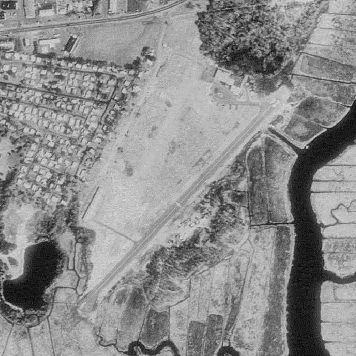 USGS digital orthophoto of Griswold Airport in Madison, Connecticut, United States